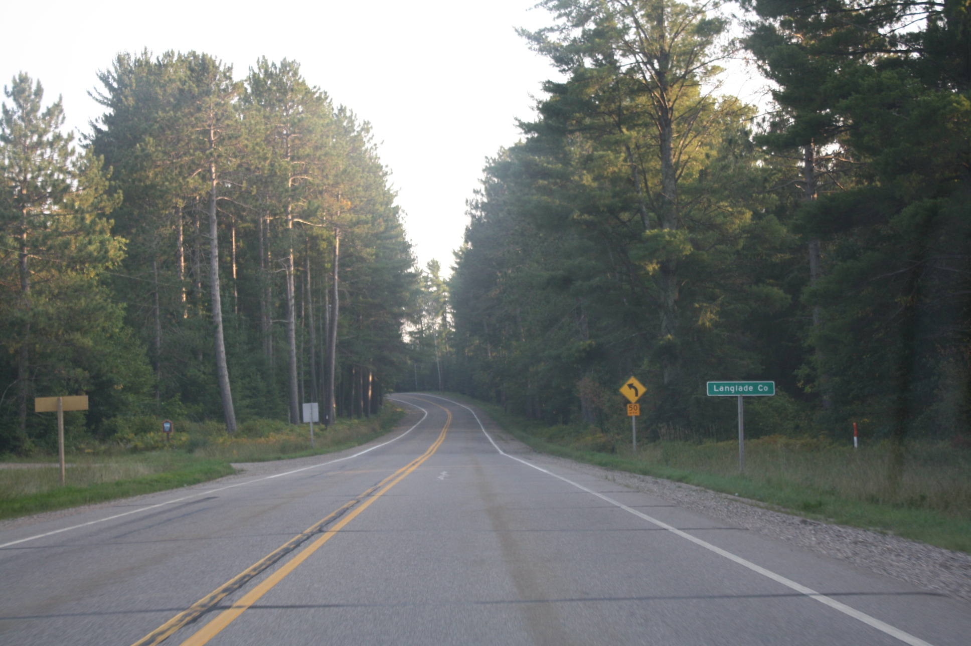 Looking south at the sign marking the county line into Langlade County, Wisconsin on Wisconsin Highway 55.